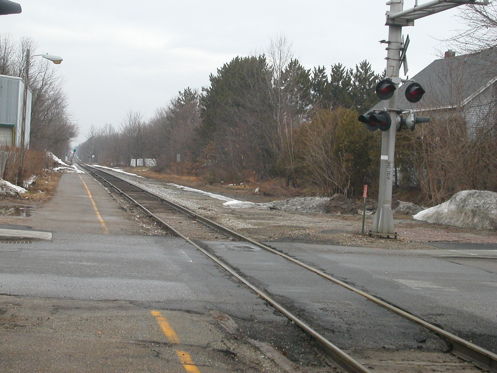 Essex Junction-Burlington VT Amtrak railroad station, crossing with Central Street, view to St. Albans.